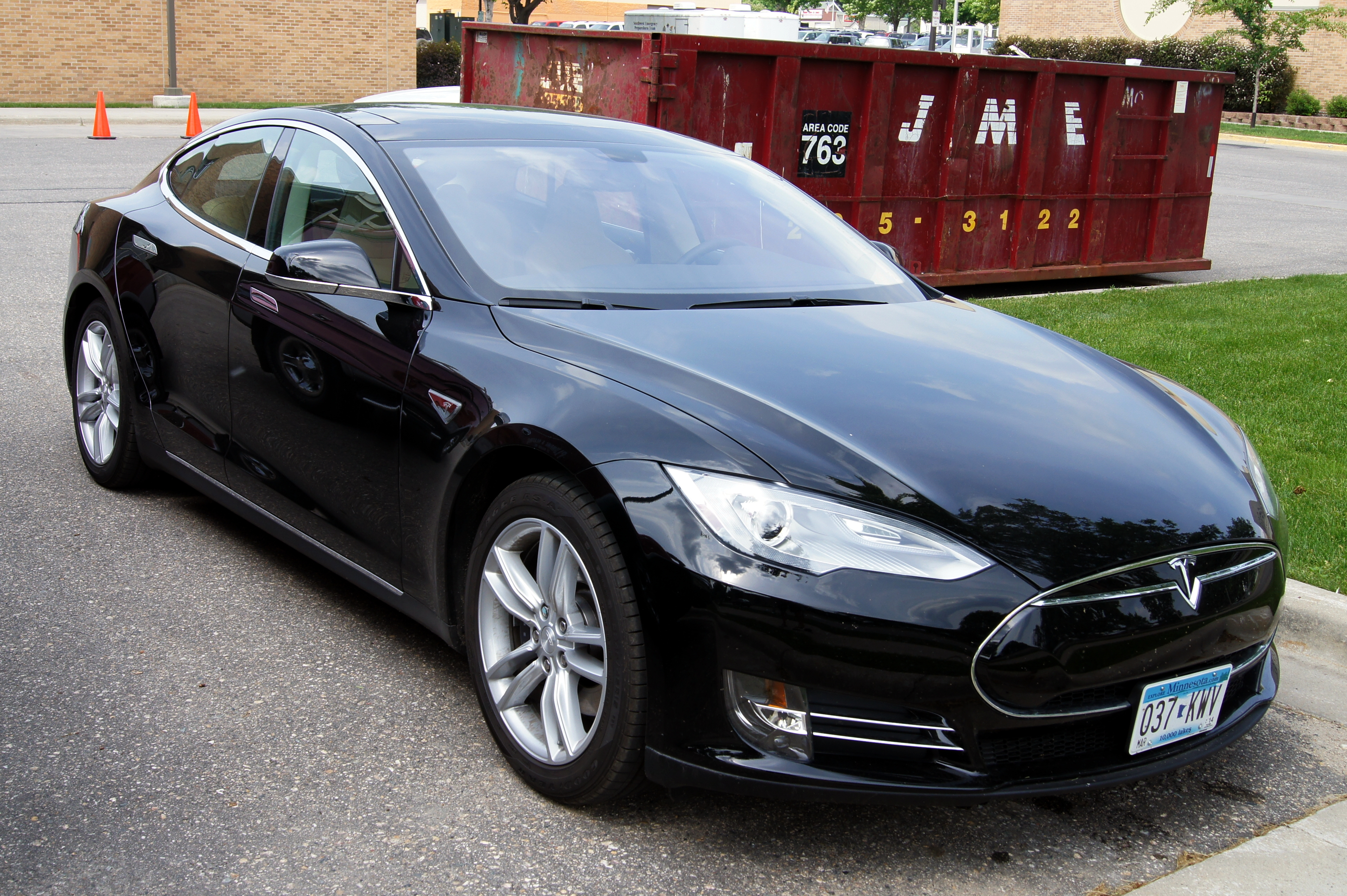 Frontal view Tesla Model S